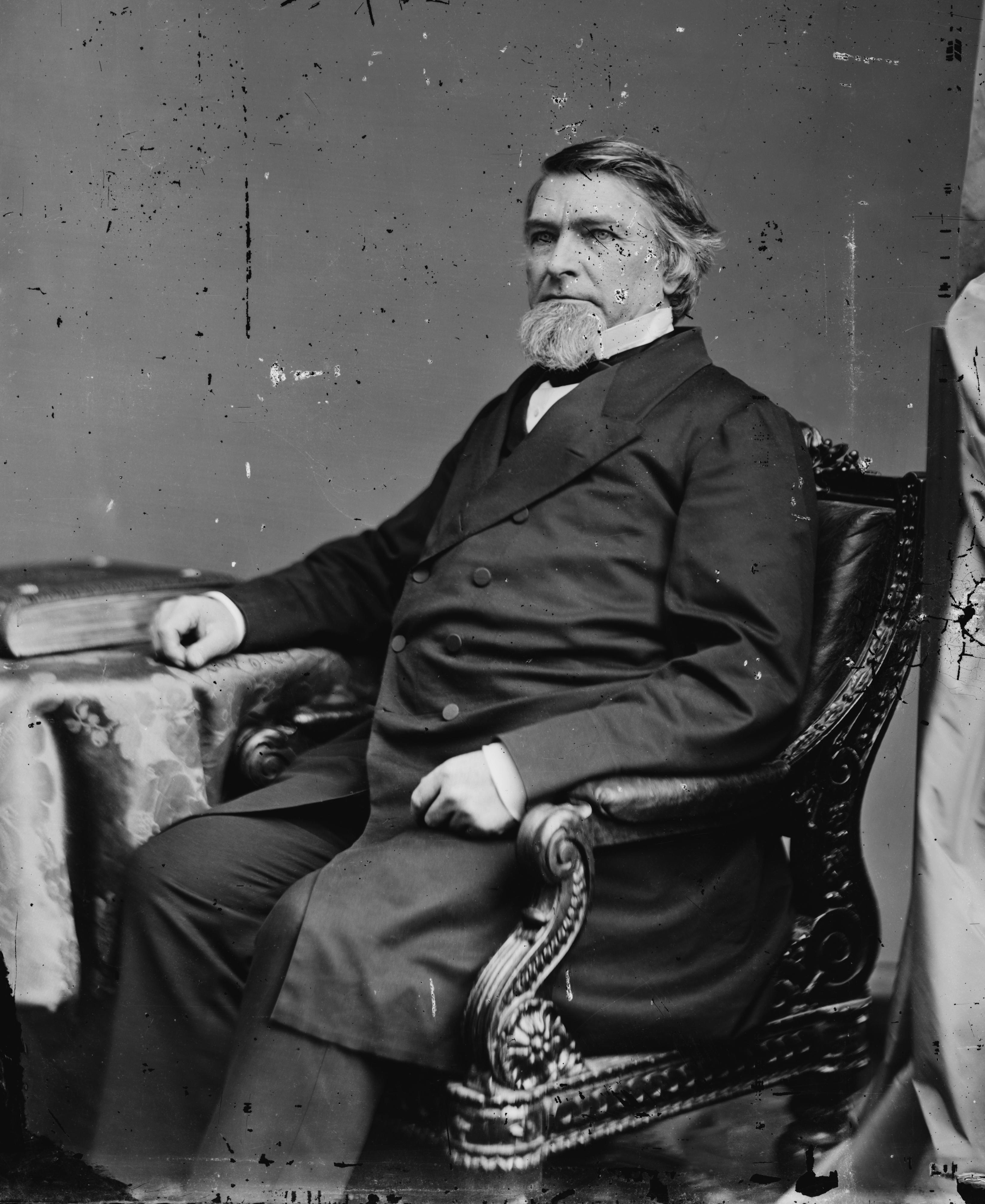 Cadwallader C. Washburn. Library of Congress description: "Hon. Cadwallader Colden Washburn of Wisc"